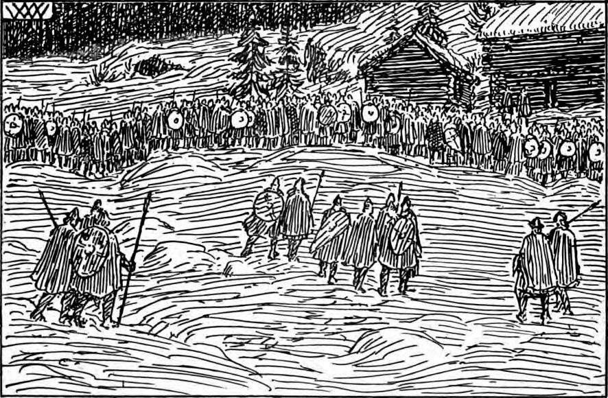 Nineteenth-century depiction of the forces of Ingi Haraldsson, King of Norway (died 1161) outside Oslo in 1161. The illustration appears on page 629 of: Storm, G, ed. (1899). Norges Kongesagaer. Vol. 2, Heimskringla II. Oslo: I.M. Stenersens Forlag. The caption reads: "Da lod kong Inge Blæse Hæren op fra Byen og lod fylke".